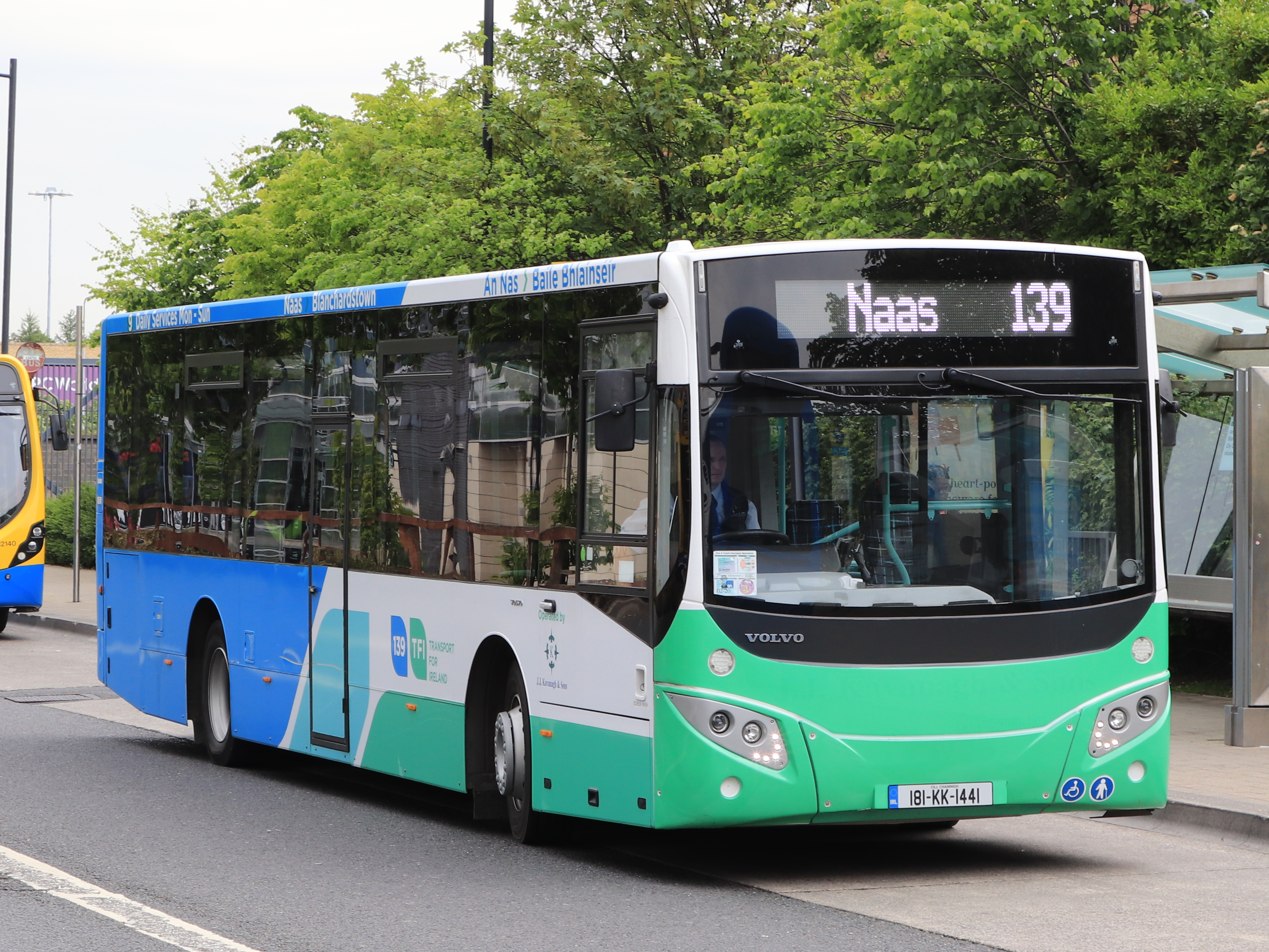 Volvo B8RLE / MCV Evora B46F New to JJ Kavanagh, March 2018 Blanchardstown Shopping Centre